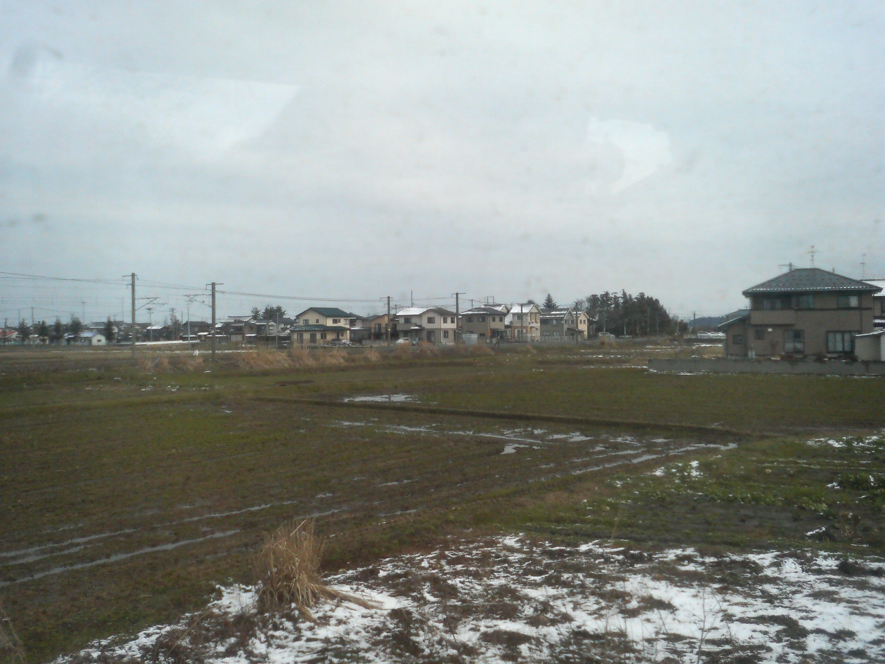 Junction of Uetsu Main Line and Yonesaka Line.